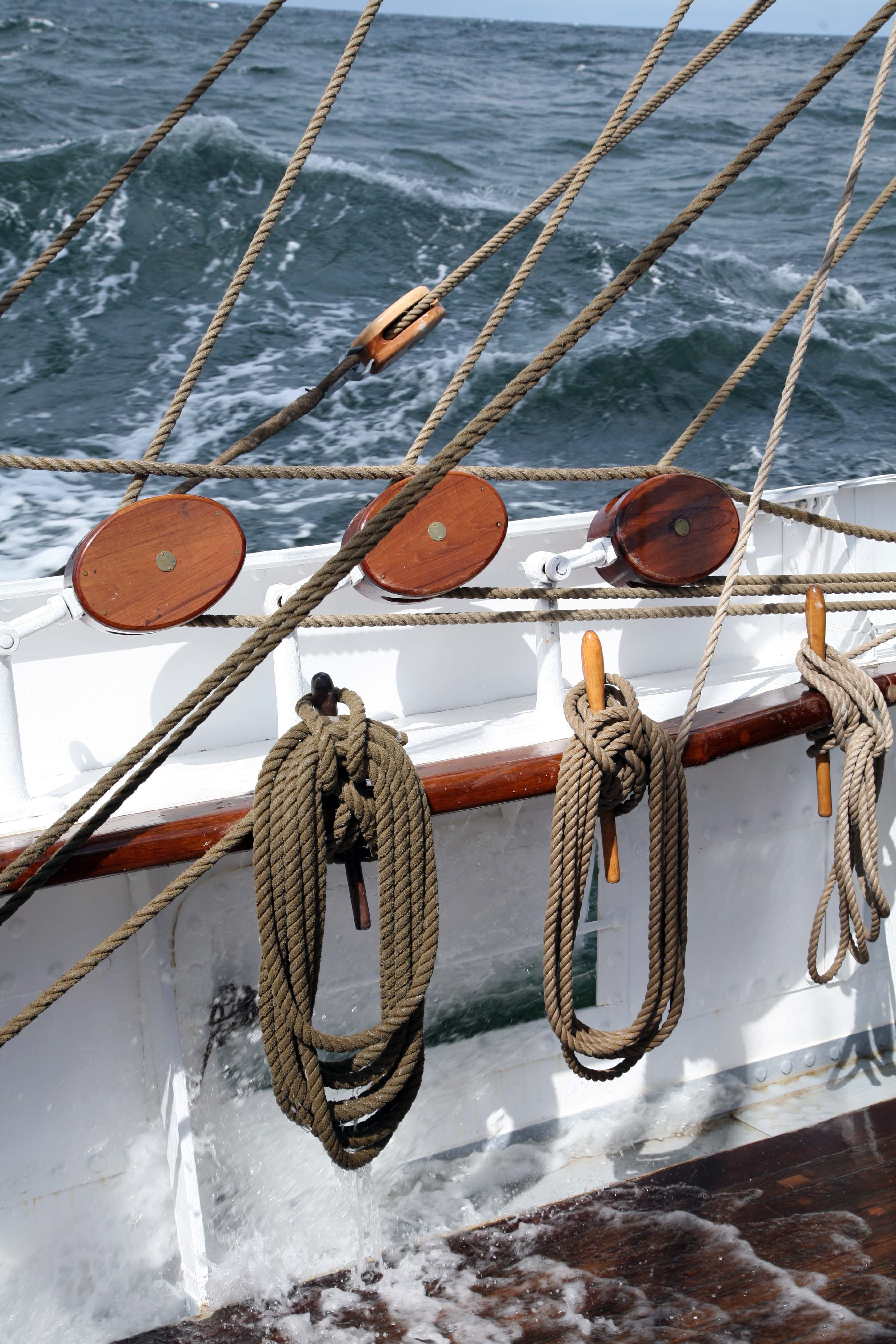 aboard Sørlandet: pulleys and belaying pin rail with ropes